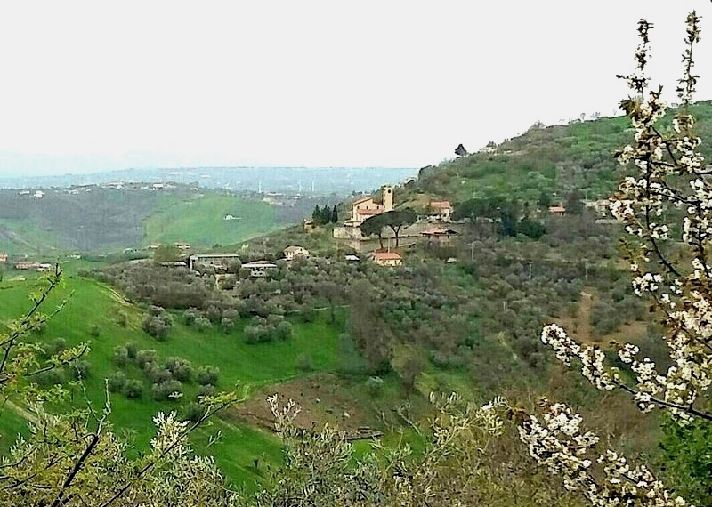 Saint Liberatore countryside, Ariano Irpino, Italy